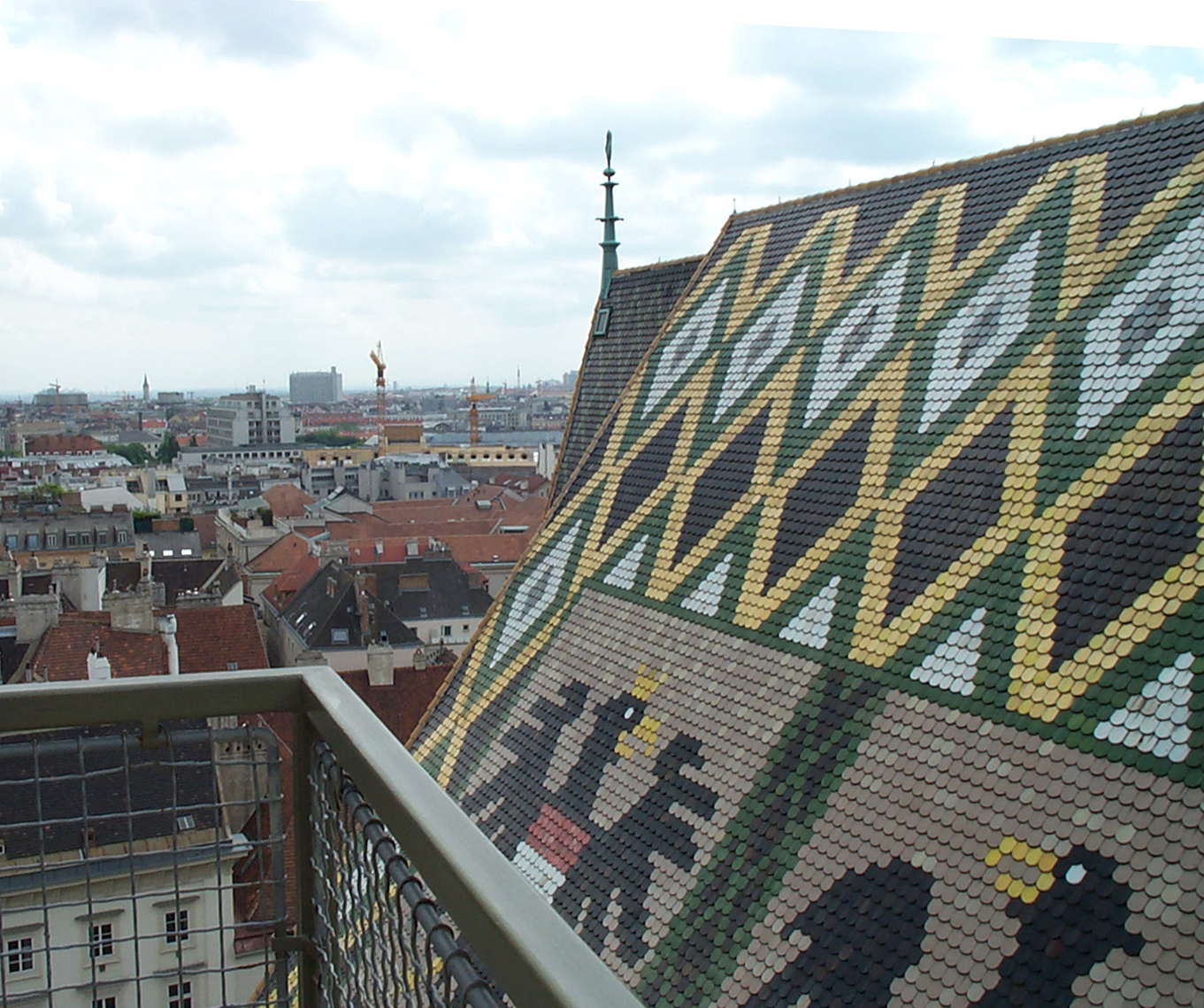 St. Stephen's rooftop mosaic, Vienna, Austria